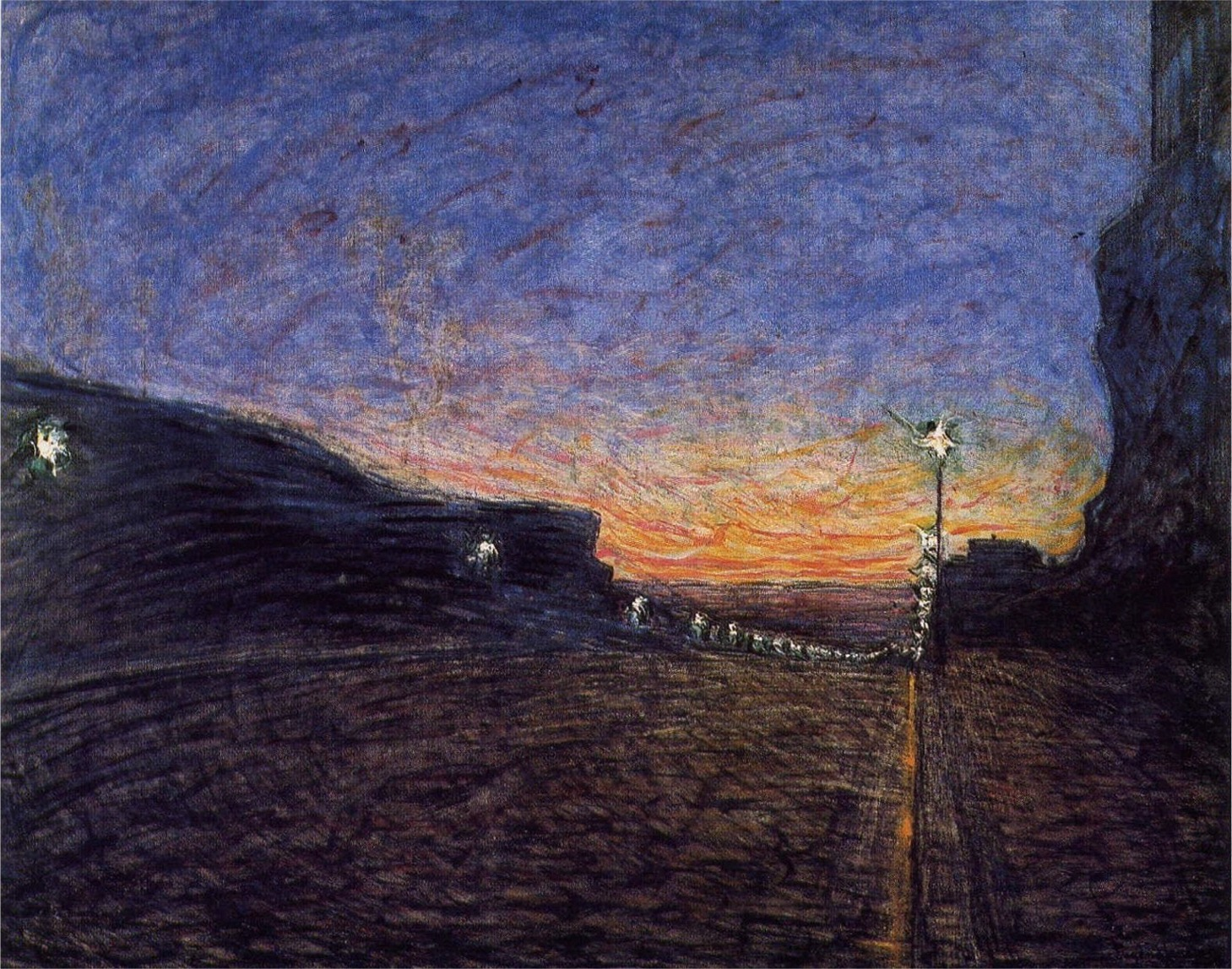 literally 'Horn Street', meaning 'street of headland or cape') is a major commercial and transit street in Stockholm.